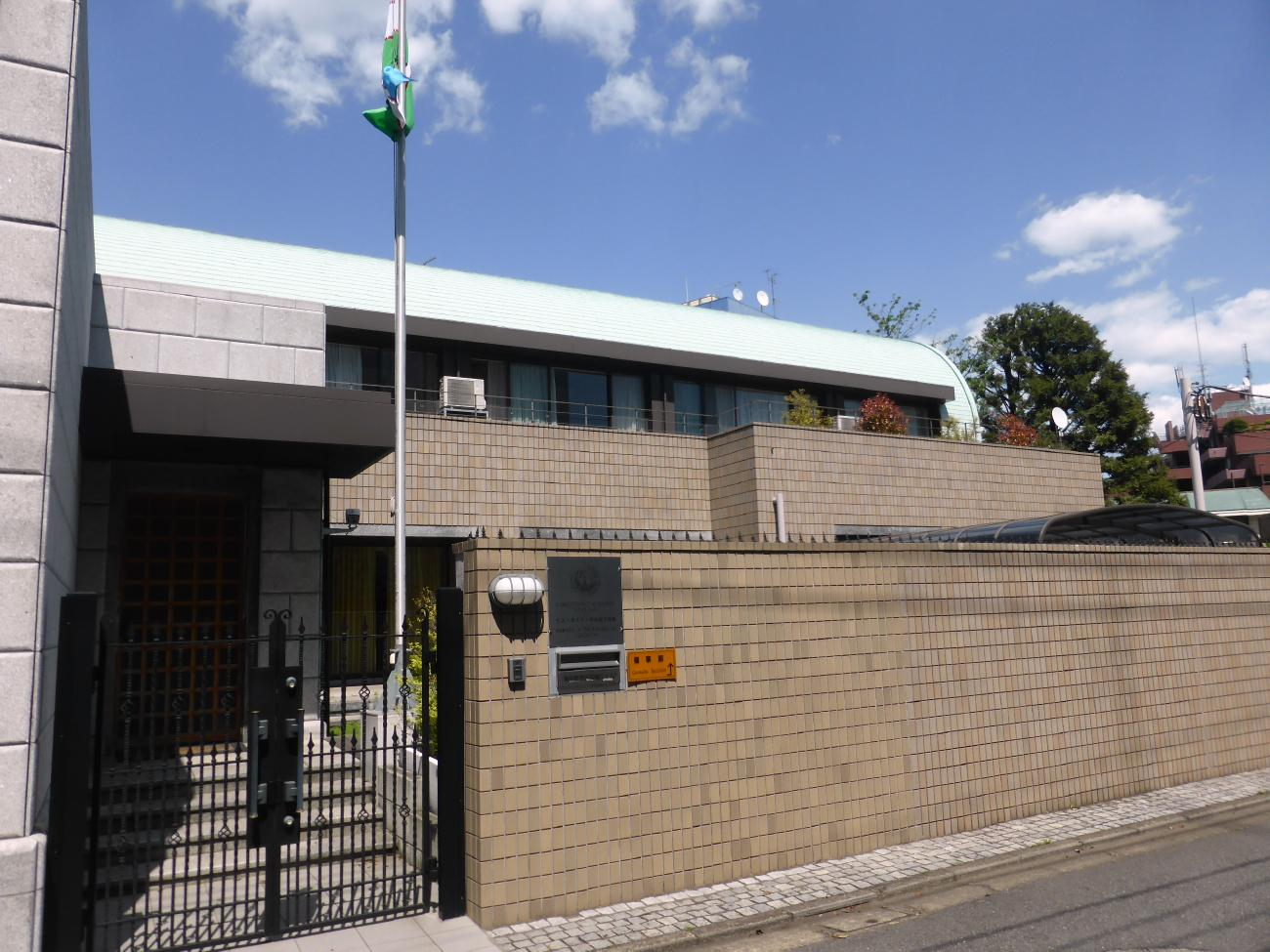 Main gate of the Embassy of Uzbekistan in Tokyo, Japan